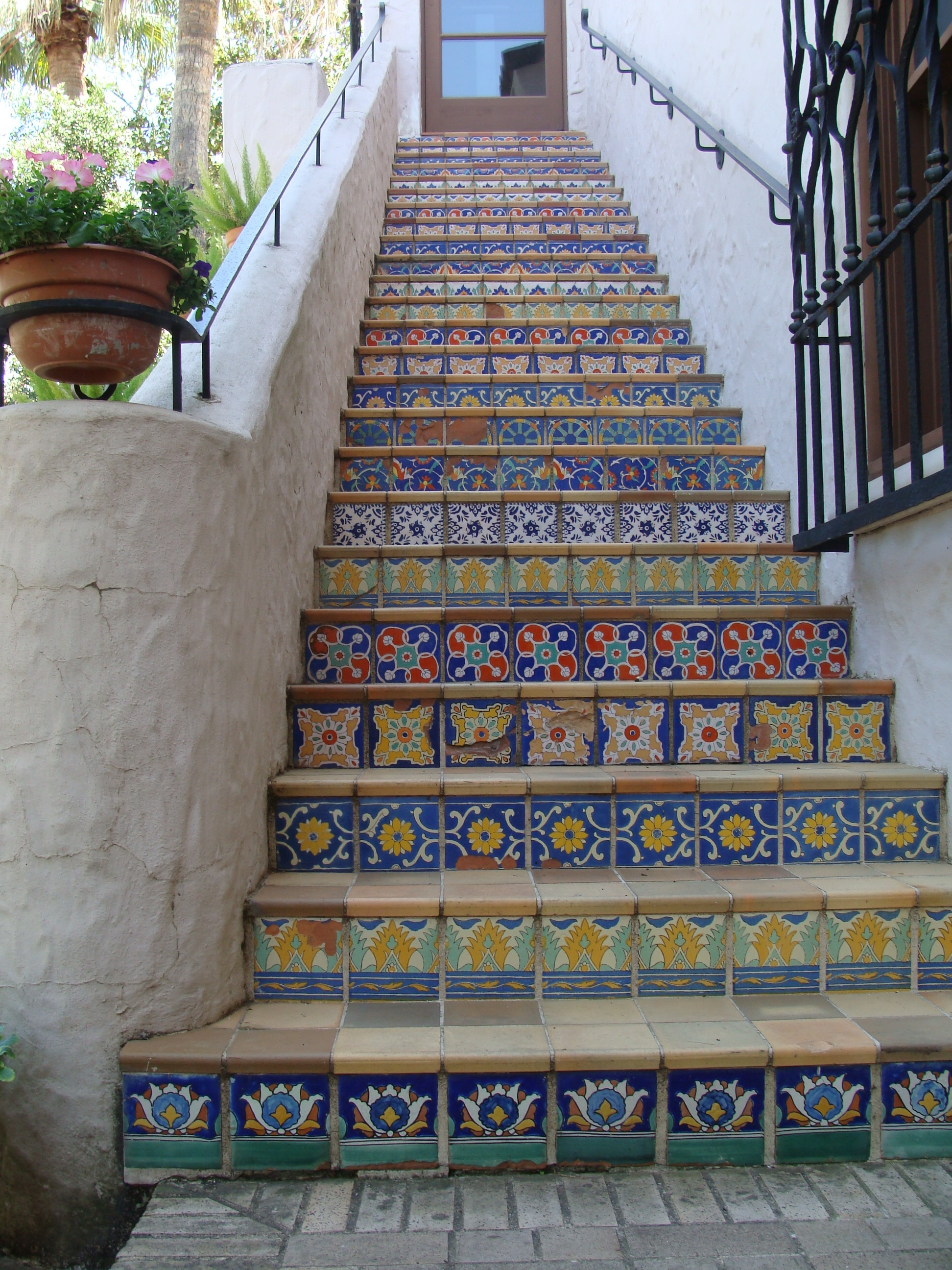 Steps in the courtyard. McNay Art Museum. San Antonio, Texas